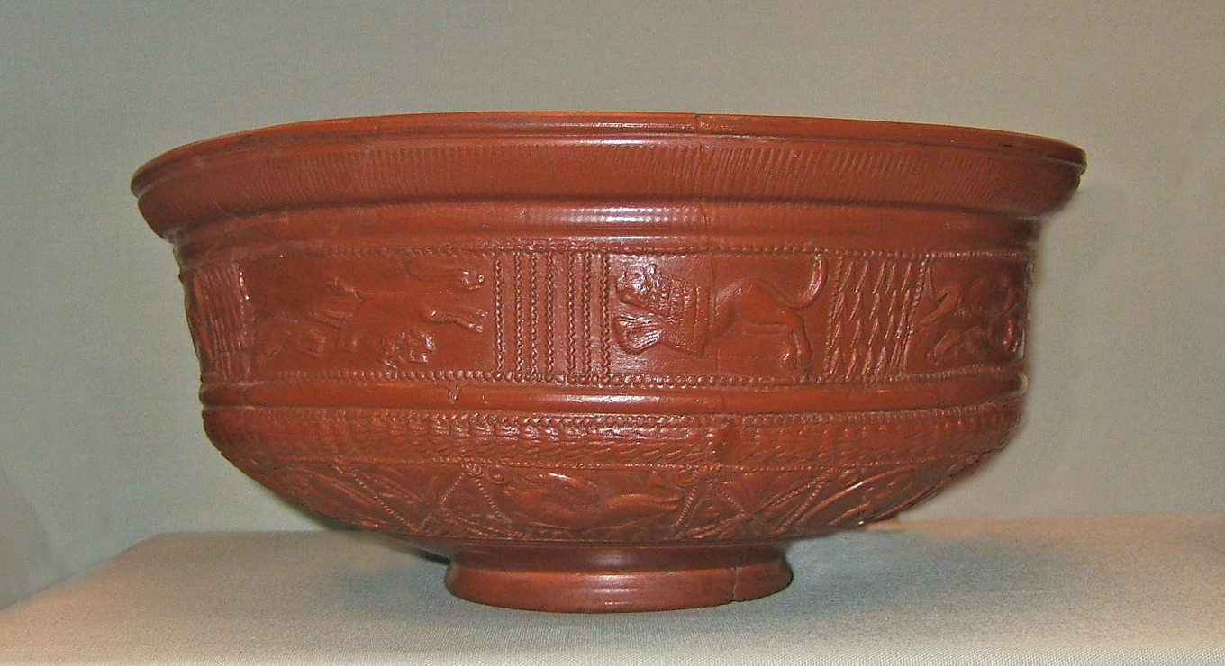 South Gaulish samian ware bowl, form Dragendorff 29, late 1st century AD. Found in London. Rim diam. 25.1 cm. British Museum, London. PE 1915.12-8.51